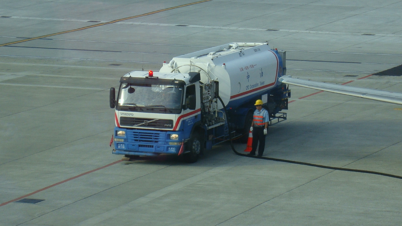 Volvo FM12 aviation tank truck in Taipei Songshan Airport of CPC Corporation, Taiwan.